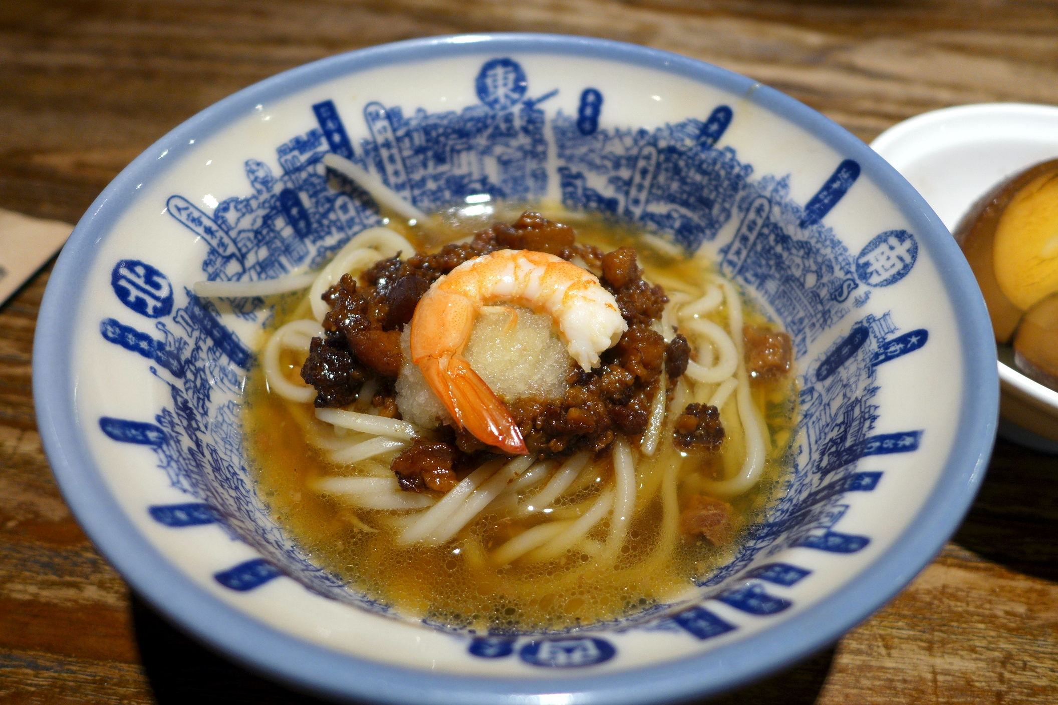 Tan Tsai Noodle of Tu Hsiao Yue